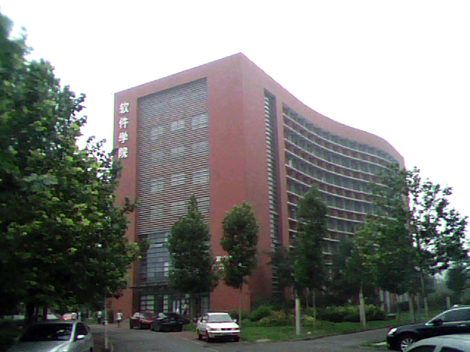 Beijing University of Technology campus